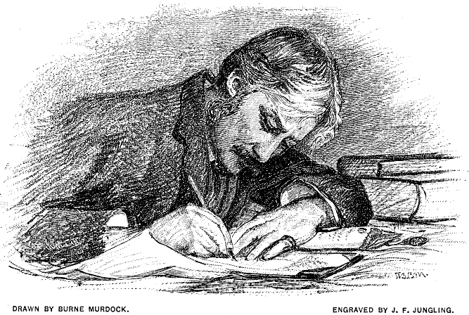 Engraving of Andrew Lang at Work